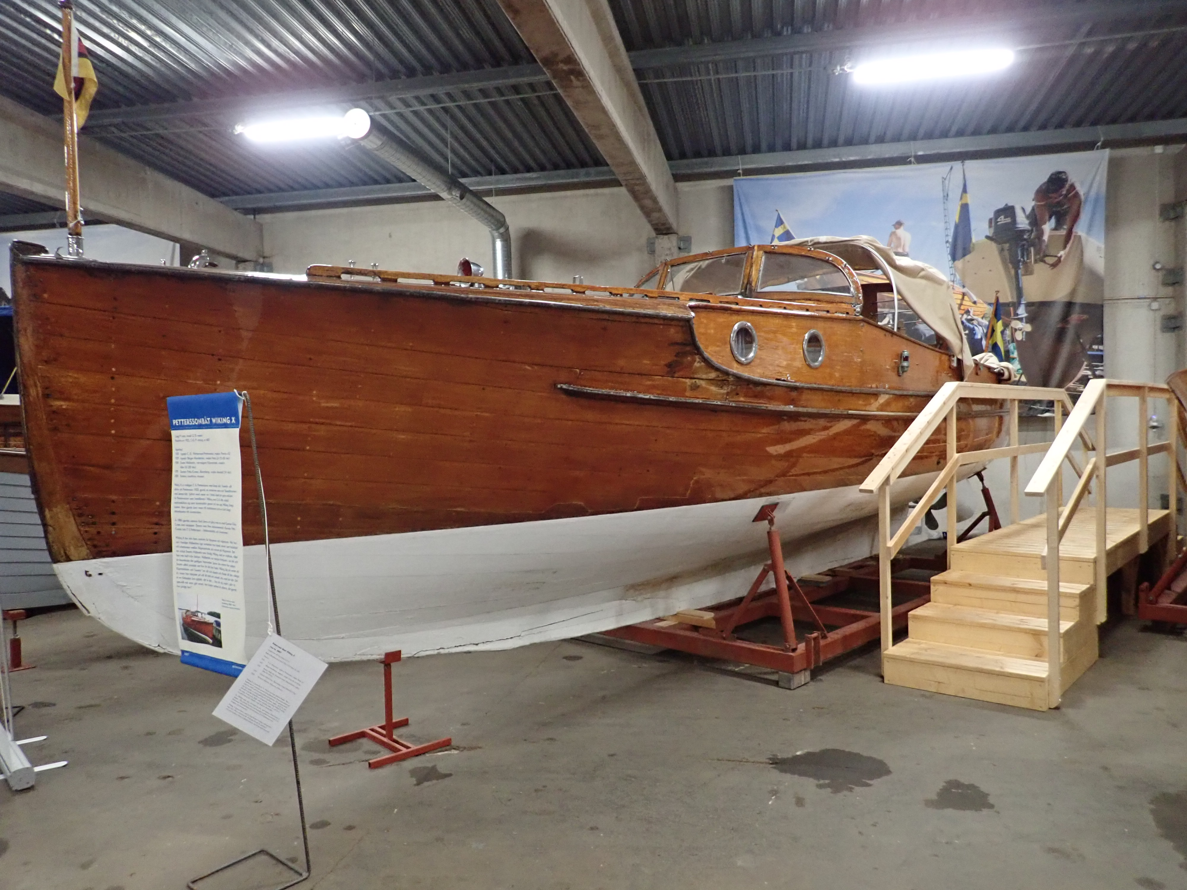 Motor yacht Wiking X, designed by C G Pettersson in 1925. Wiking X is a part of the collections of The Maritime Museum Sjöhistoriska (part of the Swedish National Maritime Museums).